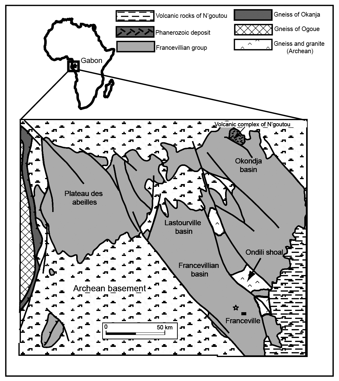 Geological map of the Francevillian basin in Gabon, West Africa. The location of the fossiliferous quarry is indicated by a star.